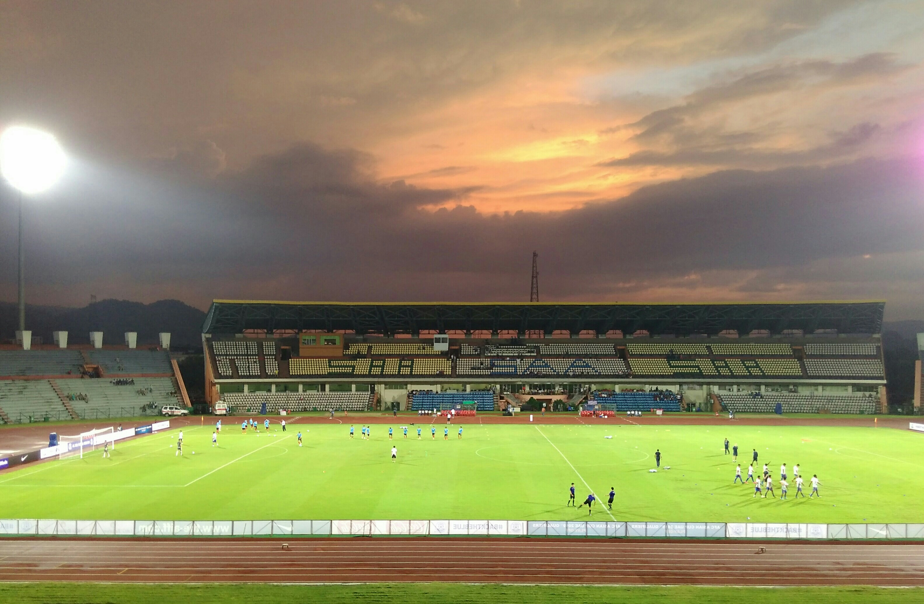 The Main Stand of the Indira Gandhi Athletic Stadium in the background while the players of the Indian National Football team and the Laos National Football team warm-up under the floodlights.